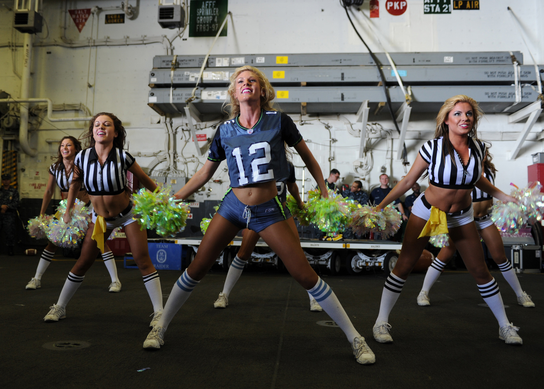 ARABIAN SEA (Feb. 13, 2012) The Seattle Seahawks cheerleaders, the Sea Gals, perform for Sailors and Marines aboard the amphibious assault ship USS Makin Island (LHD 8). Their visit to the ship was part of an Armed Forces Entertainment-sponsored tour to help boost morale for deployed troops. Makin Island and embarked Marines assigned to the 11th Marine Expeditionary Unit (11th MEU) are deployed supporting maritime security operations and theater security cooperation efforts in the U.S. 5th Fleet area of responsibility. (U.S. Navy photo by Chief Mass Communication Specialist John Lill/Released)